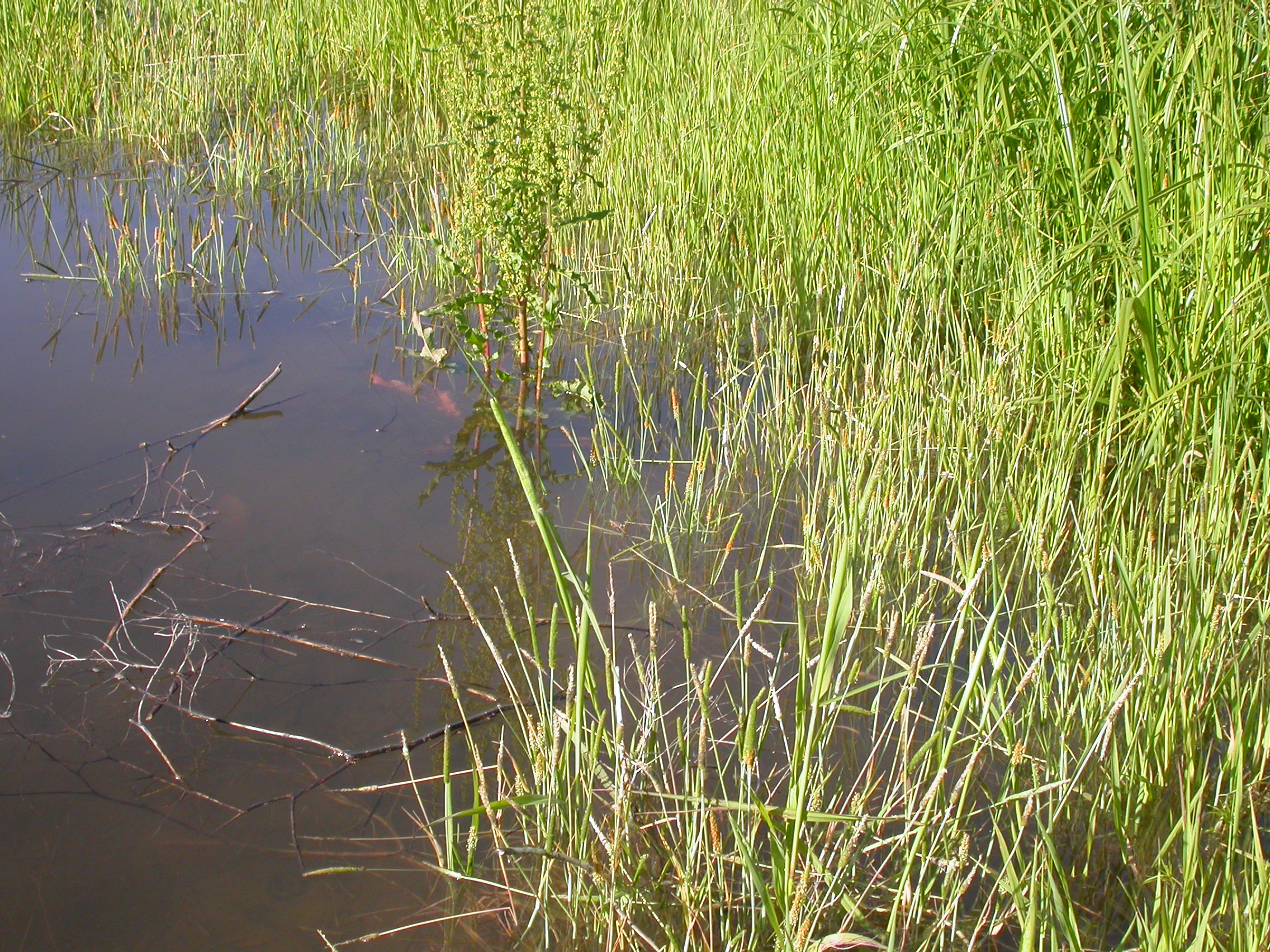 Alopecurus aequalis usually grows along the margins of standing water.